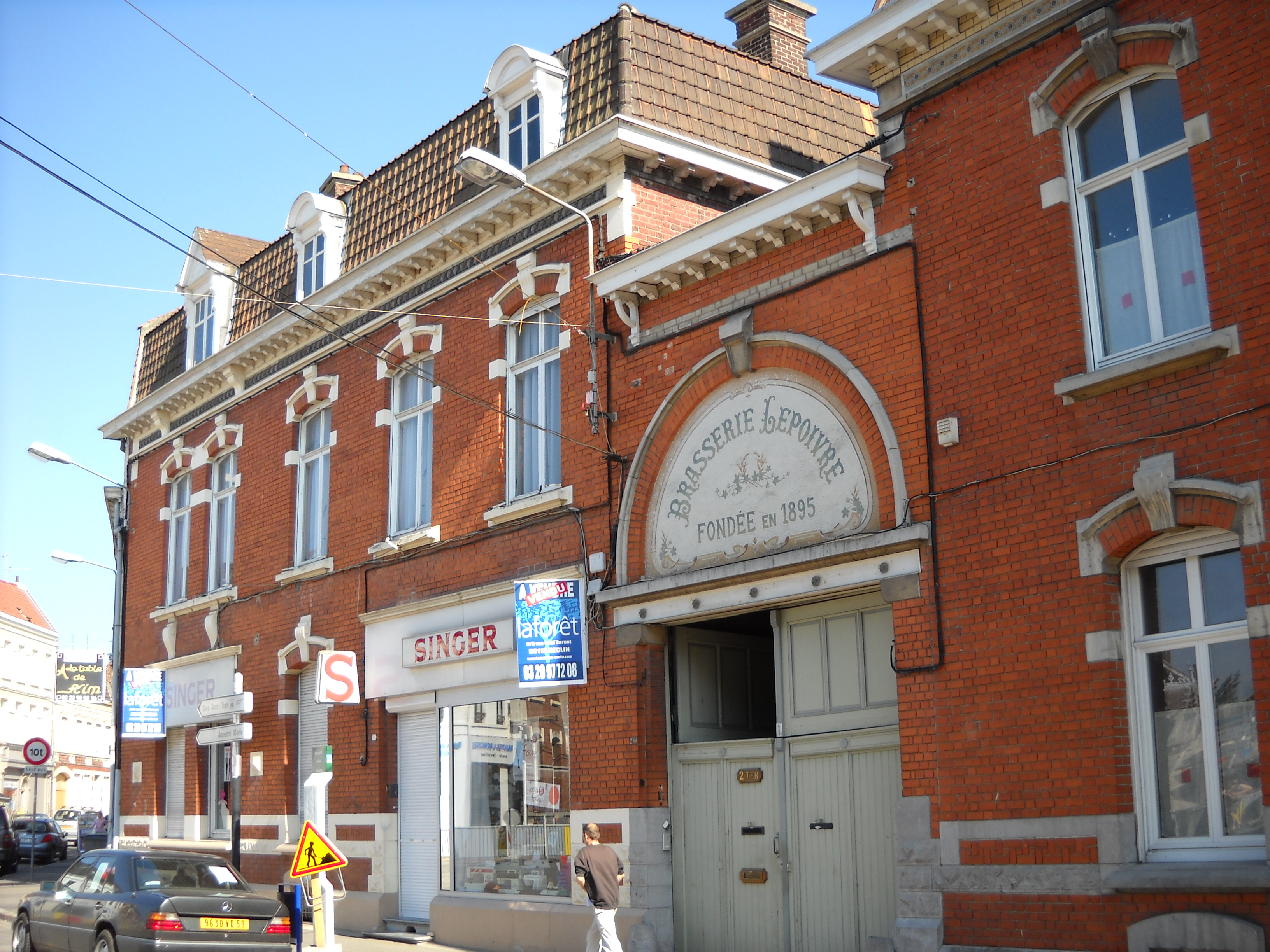 An old brewery in Seclin, Nord, France.